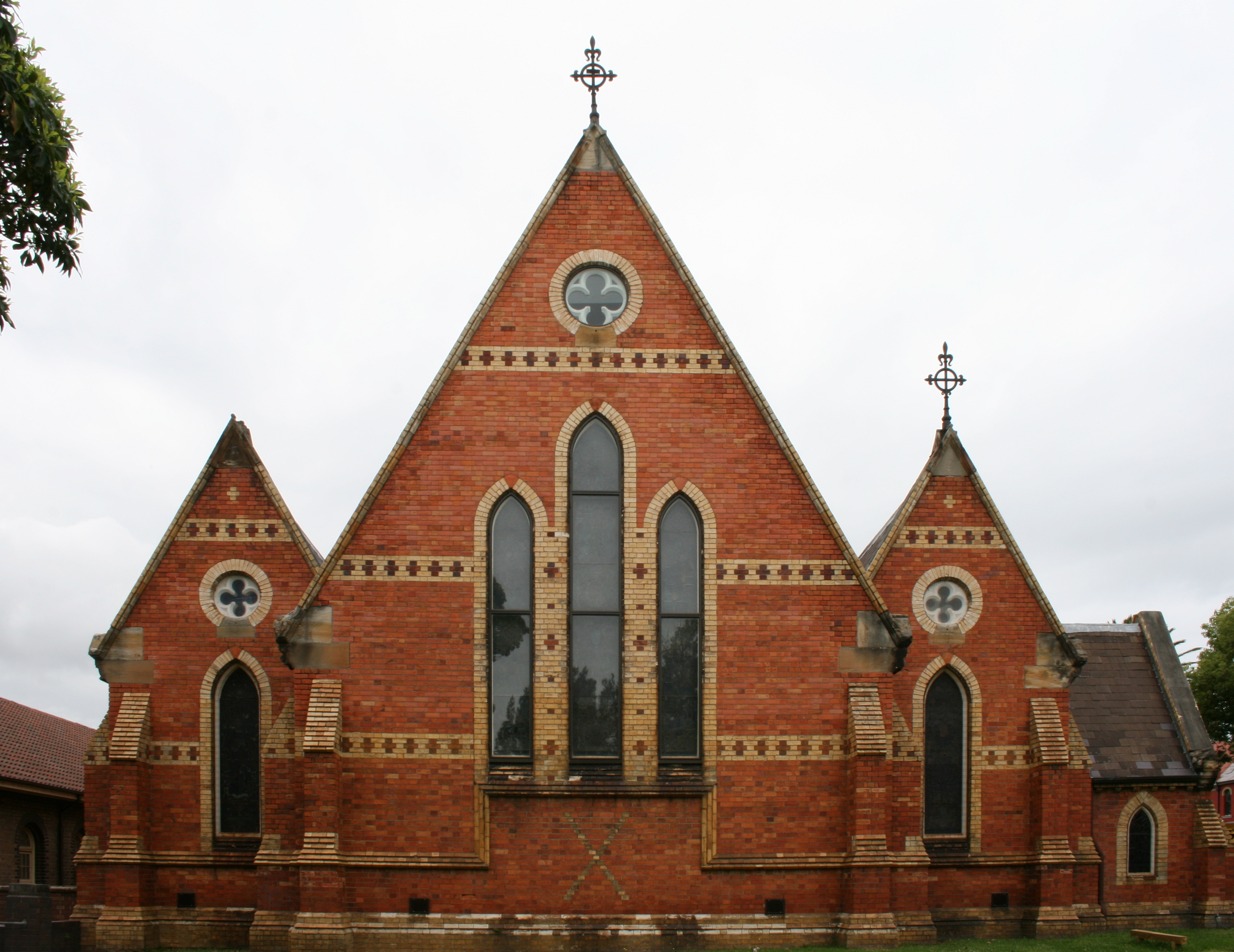 End view of All Saint's Anglican Church, Petersham, New South Wales (NSW), Australia.